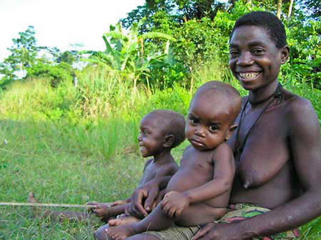 Aka (Bayaka) pygmy mother and children, Democratic Republic of the Congo.